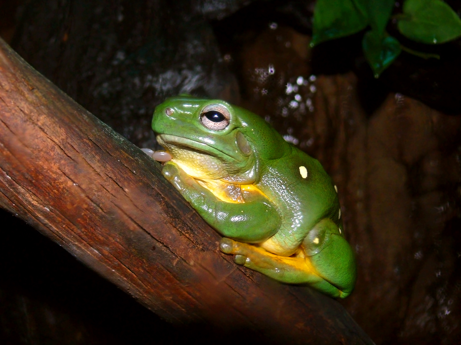 A Splendid tree frog, Litoria splendida, Melbourne zoo.